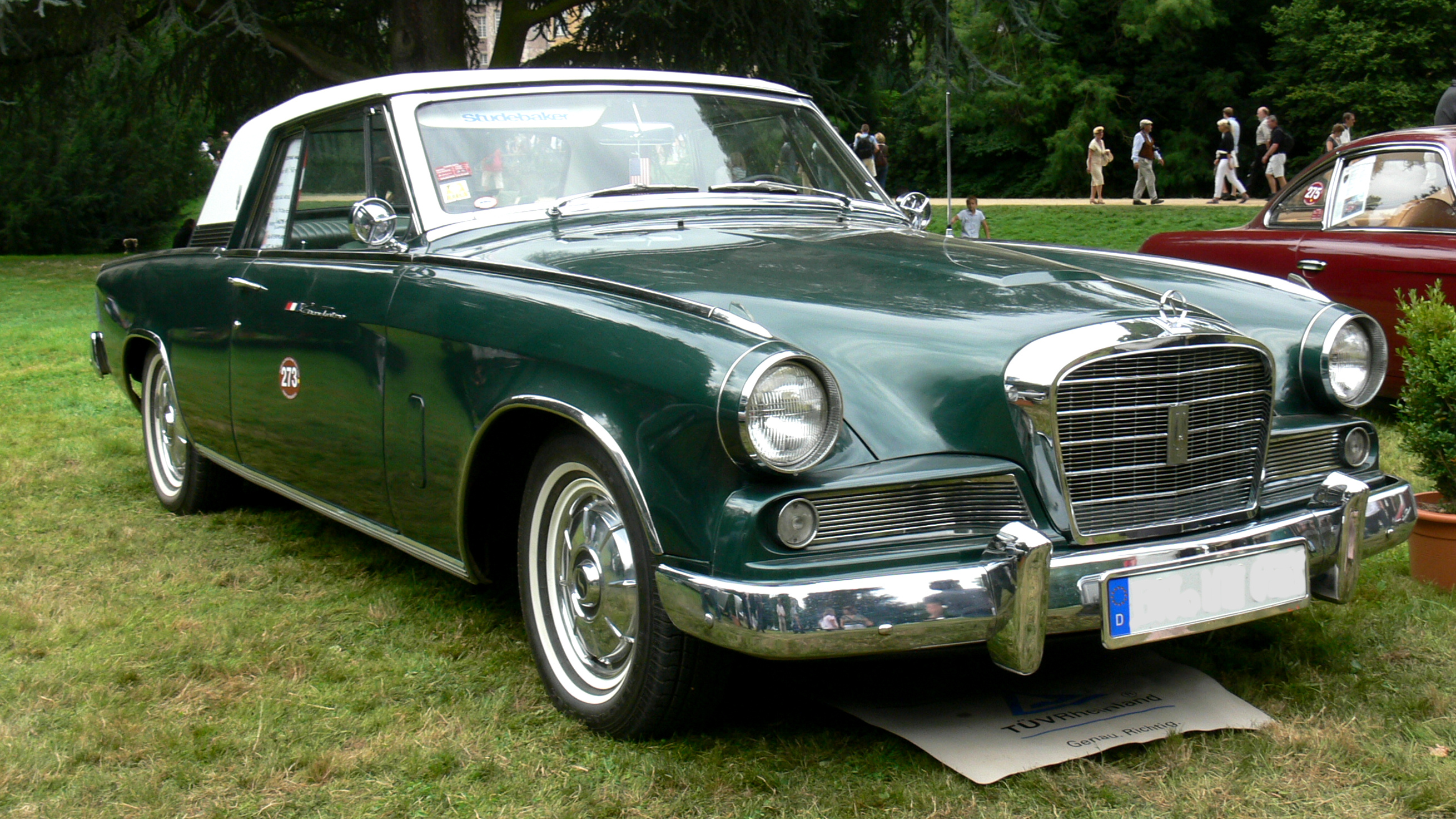 Studebaker Hawk GT (1964) at Dyck Castle, Germany